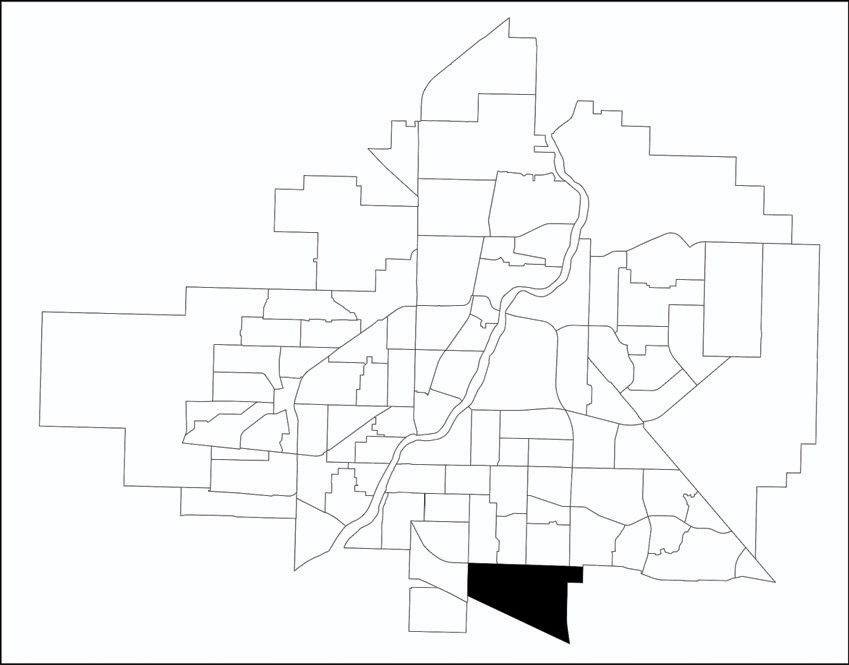 A map showing the location of the Stonebridge neighbourhood in relation to the other neighbourhoods in Saskatoon, Saskatchewan, Canada.